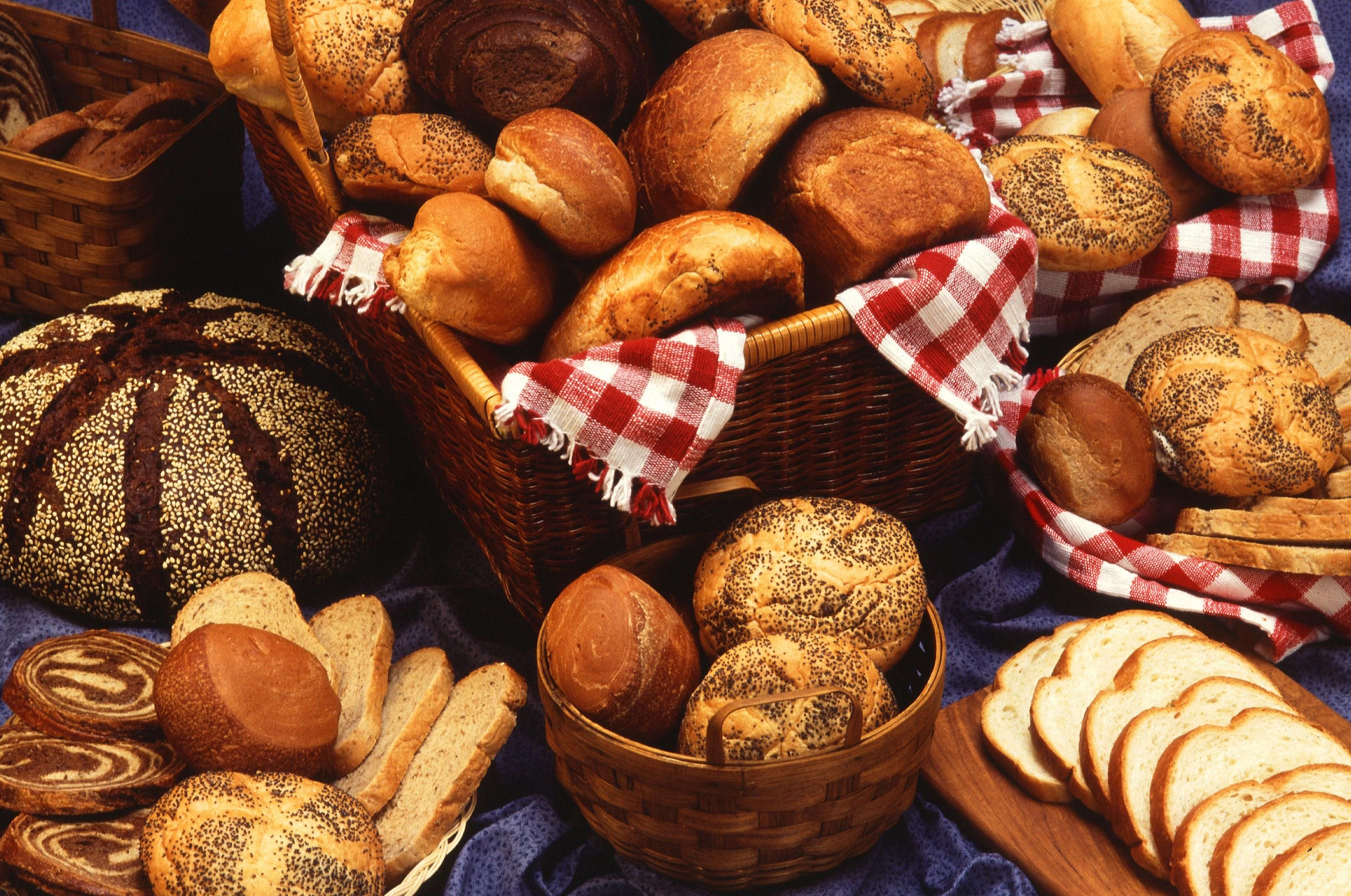 Image title: Breads Image from Public domain images website